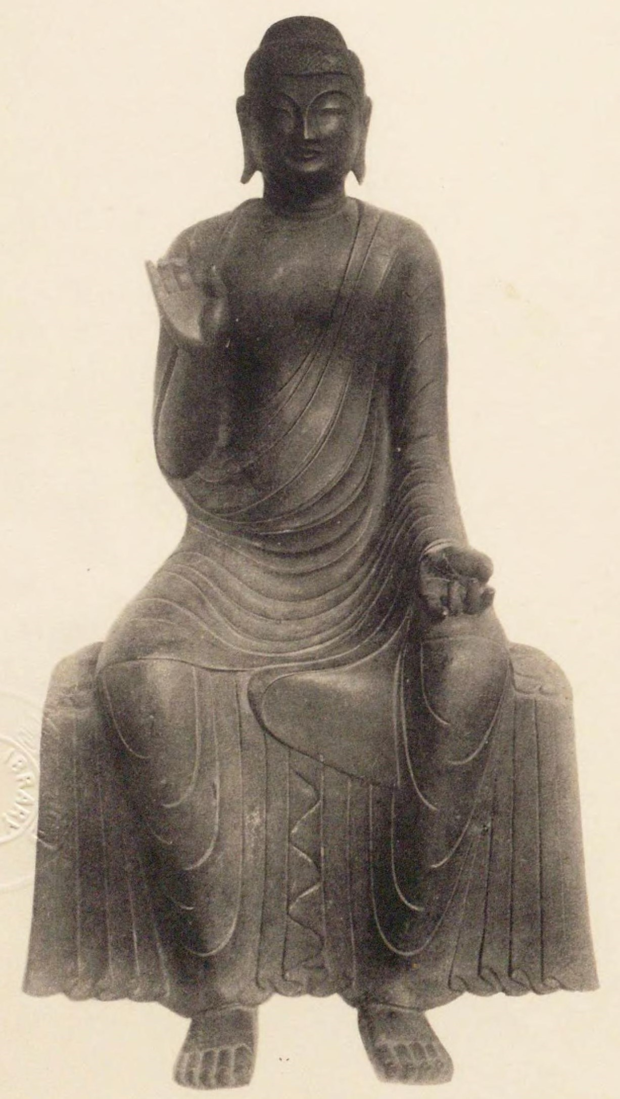 A bronze statue of sitting Gautama Buddha at Jindai-ji temple, Chofu, Tokyo. A national treasure of Japan.